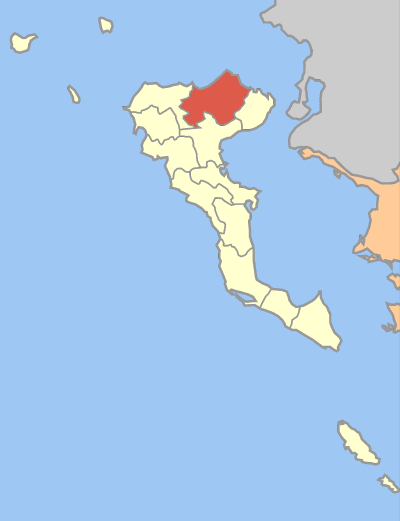 Locator map of Thinali municipality (Δήμος Θιναλίου) in Corfu prefecture (Νομός Κέρκυρας) in Greece.